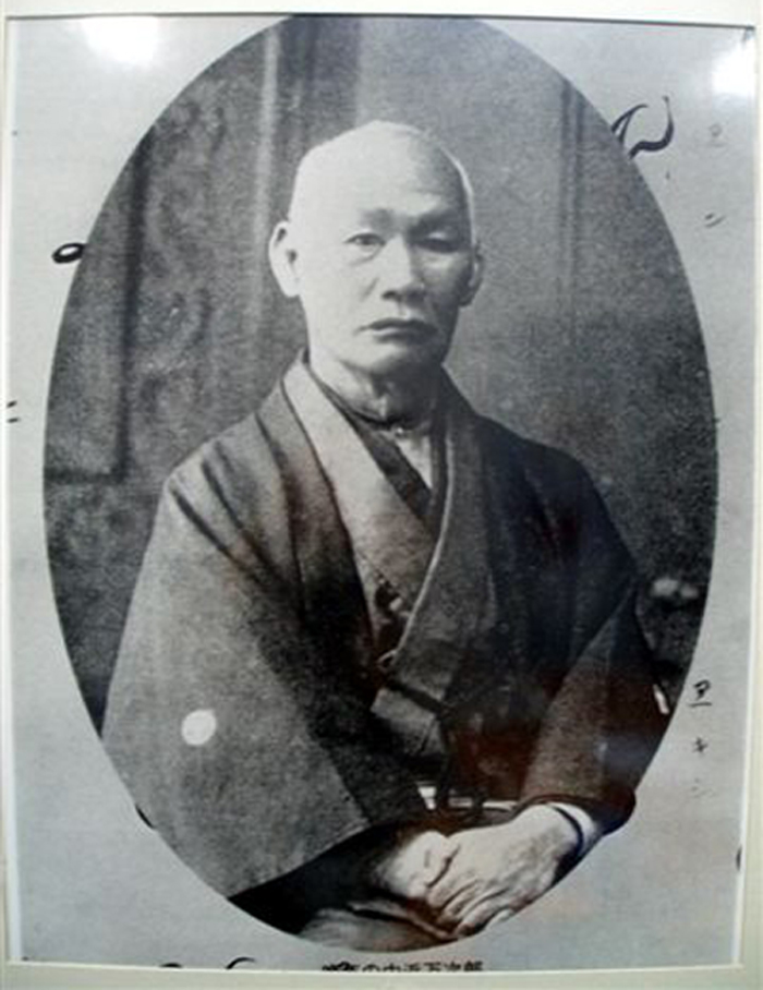 John Manjiro, photograph circa 1880.